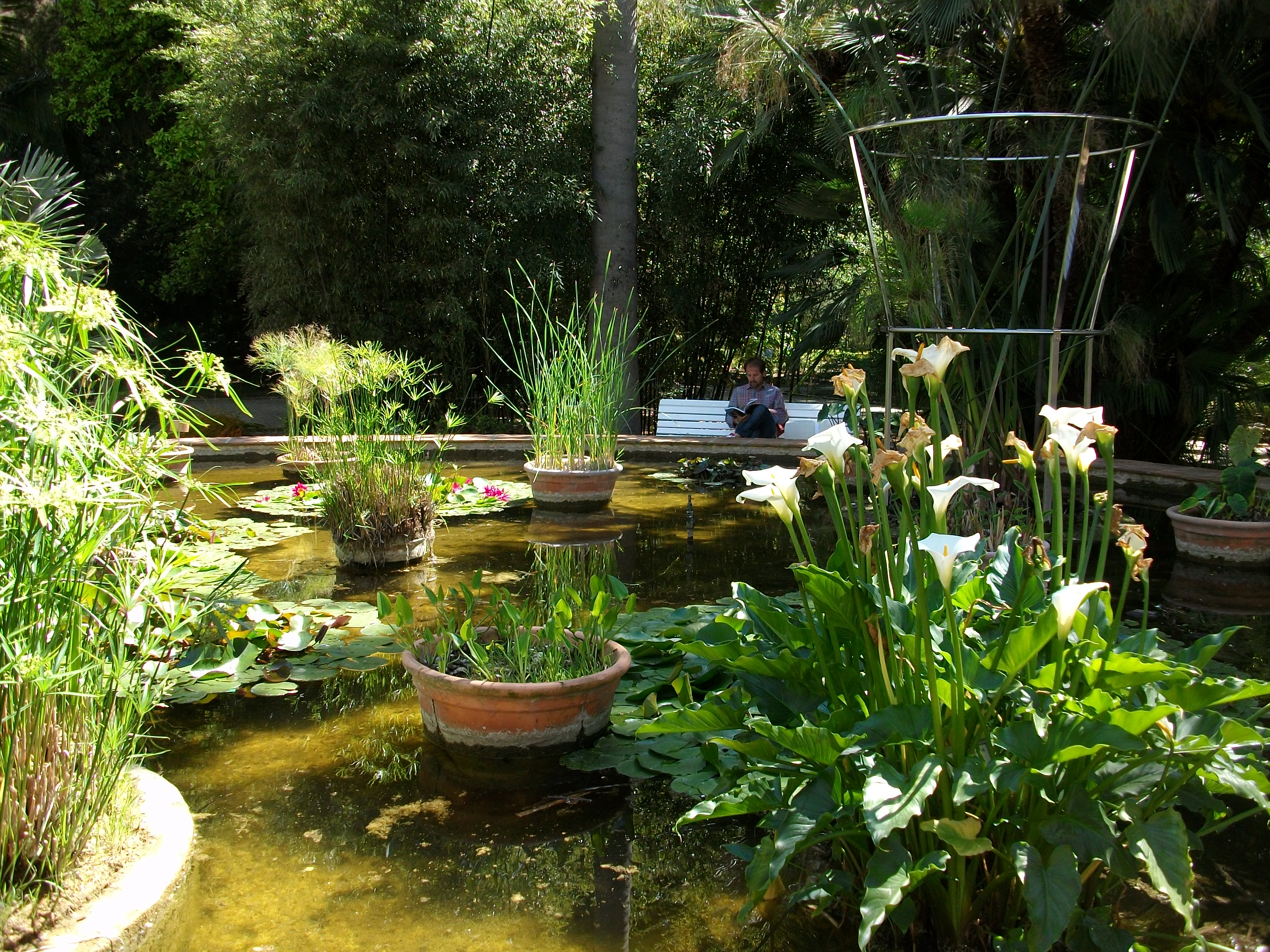 Botanical garden of València.